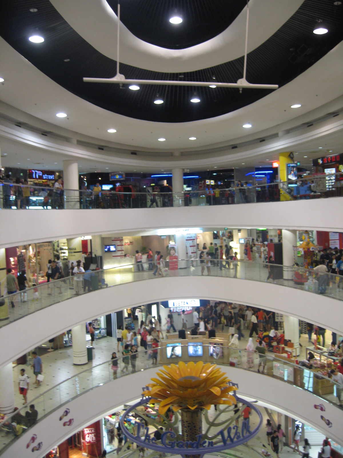 Tampines Mall.